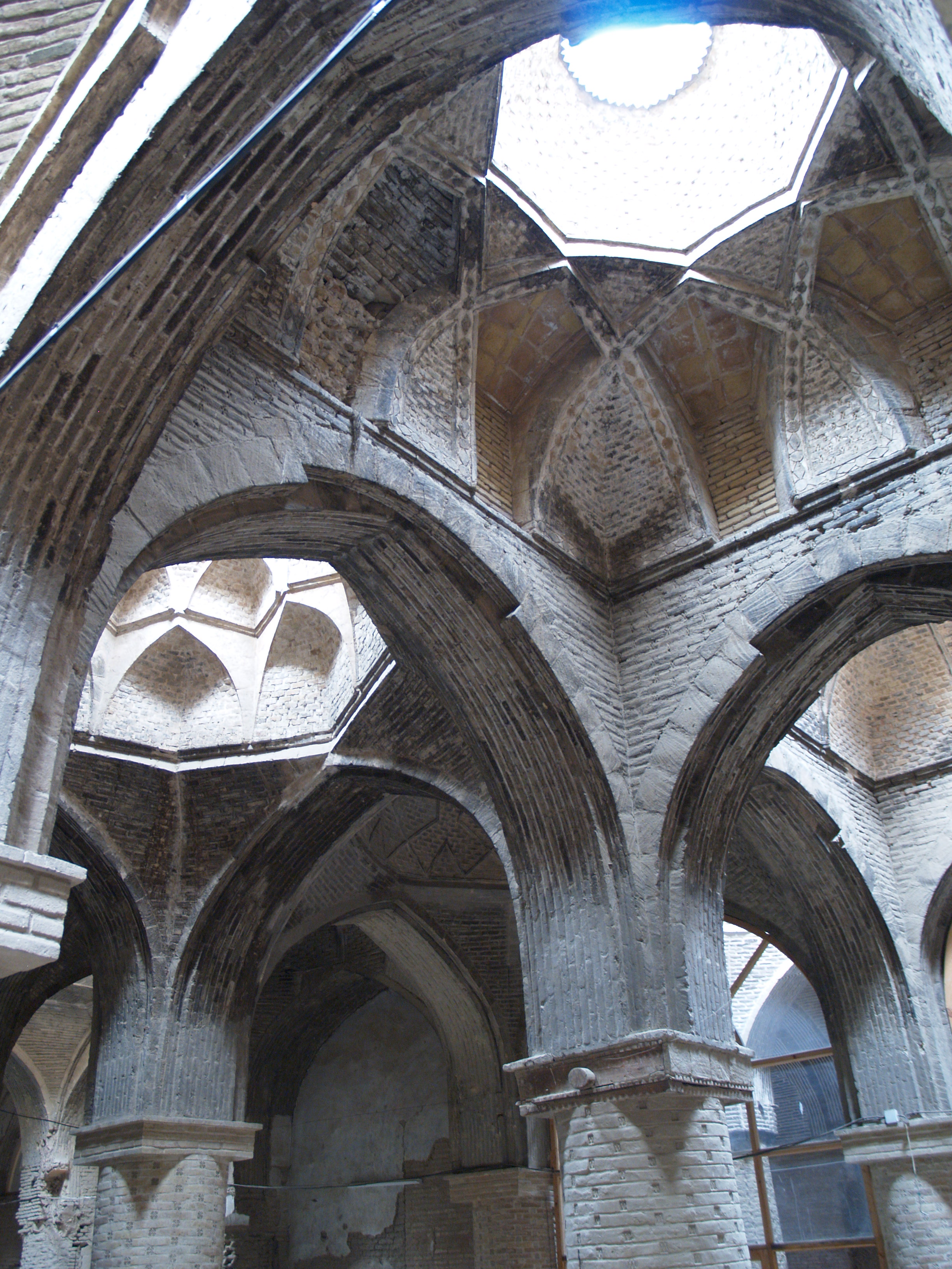 Inside the Jameh Mosque of Isfahan.